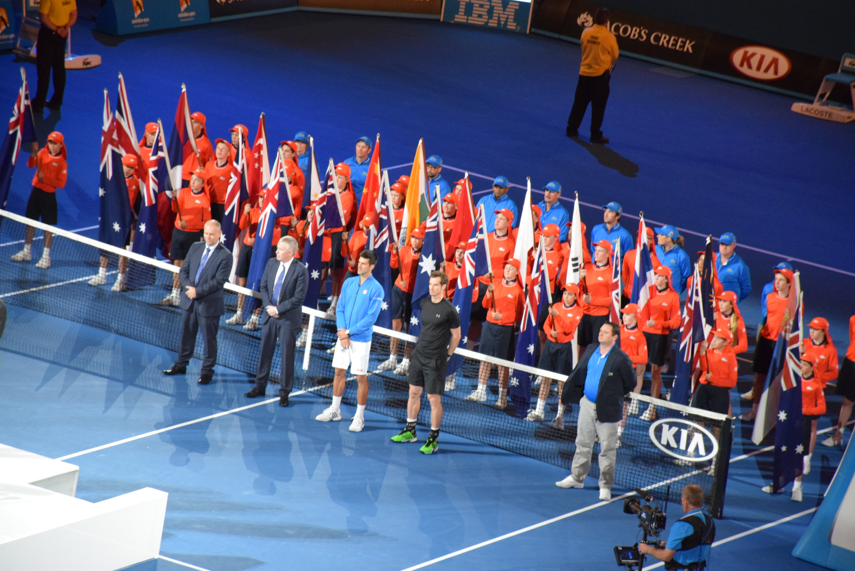 Novak Djokovic, Andy Murray and Jake Garner wait during the presentation after the 2015 Australian Open final.